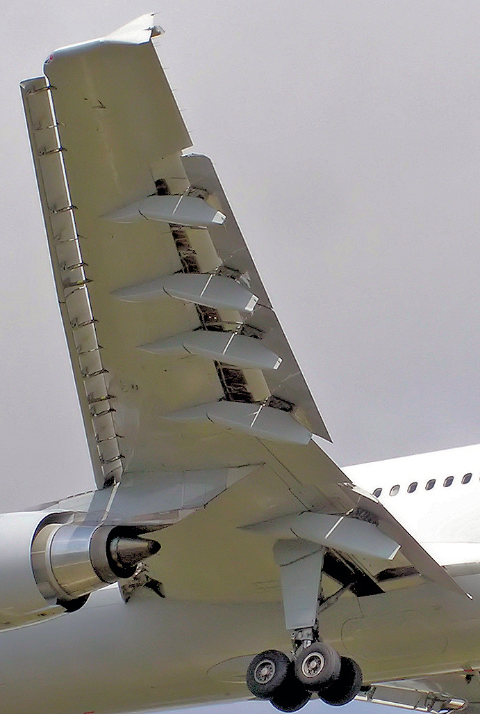 The wing of a Lufthansa Airbus A300B4-600 (D-AIAH) "Lindau/Bodensee." The aircraft is landing at London Heathrow Airport, England. Taken by Adrian Pingstone in July 2004 and placed in the public domain.